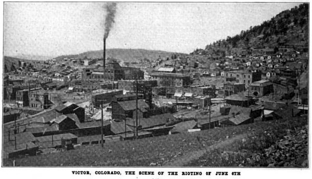 Photograph, photo caption: VICTOR, COLORADO, THE SCENE OF THE RIOTING OF JUNE 6TH